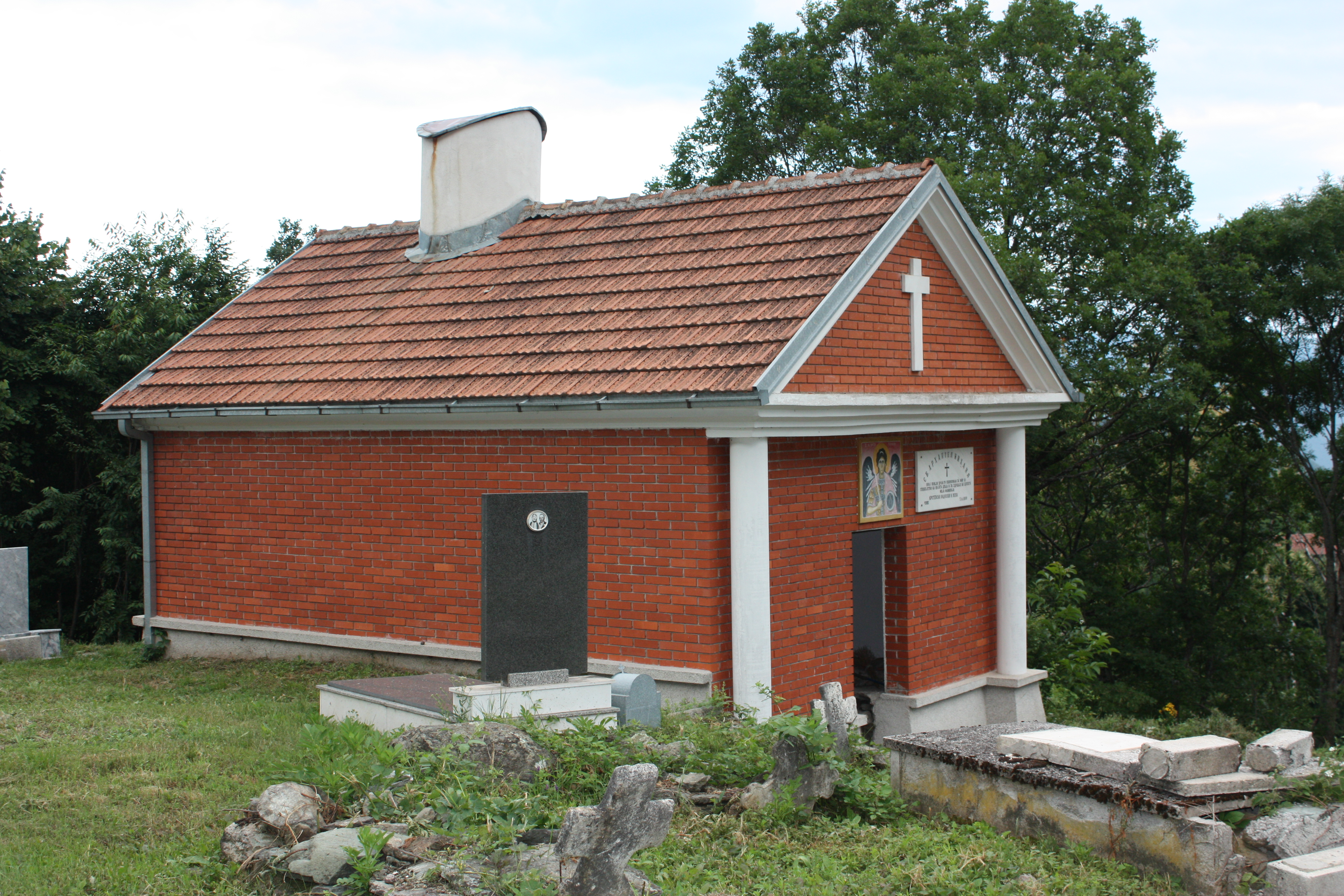 St. Michael the Archangel Church in Vratnica, Macedonia